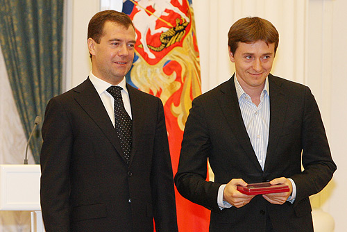 People's Artists of the Russian Federation, Sergei Bezrukov